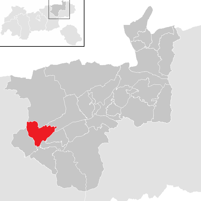 District Kufstein